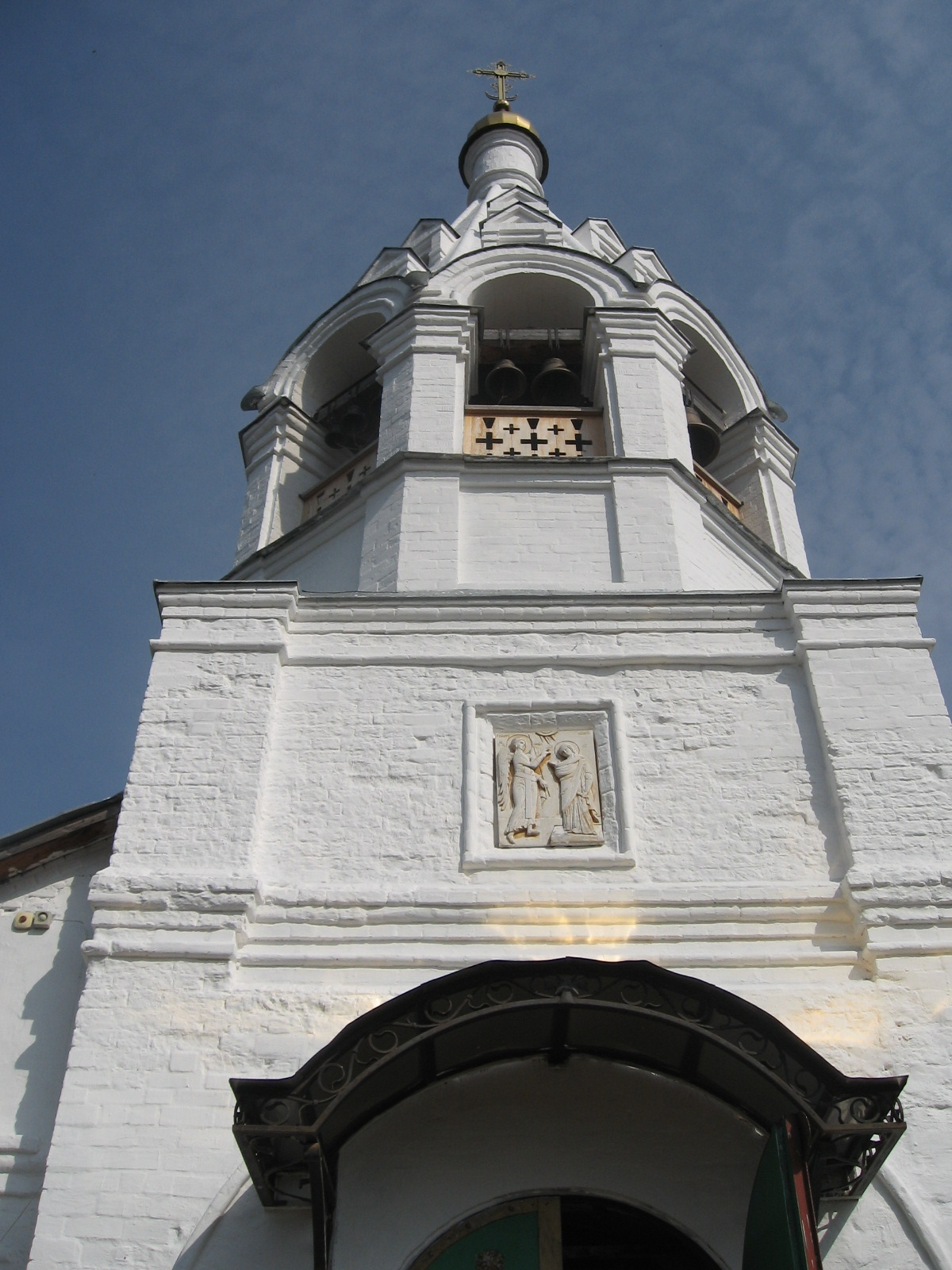 Church of Annunciation of Virgin Mary (Ryazan, XVII century)